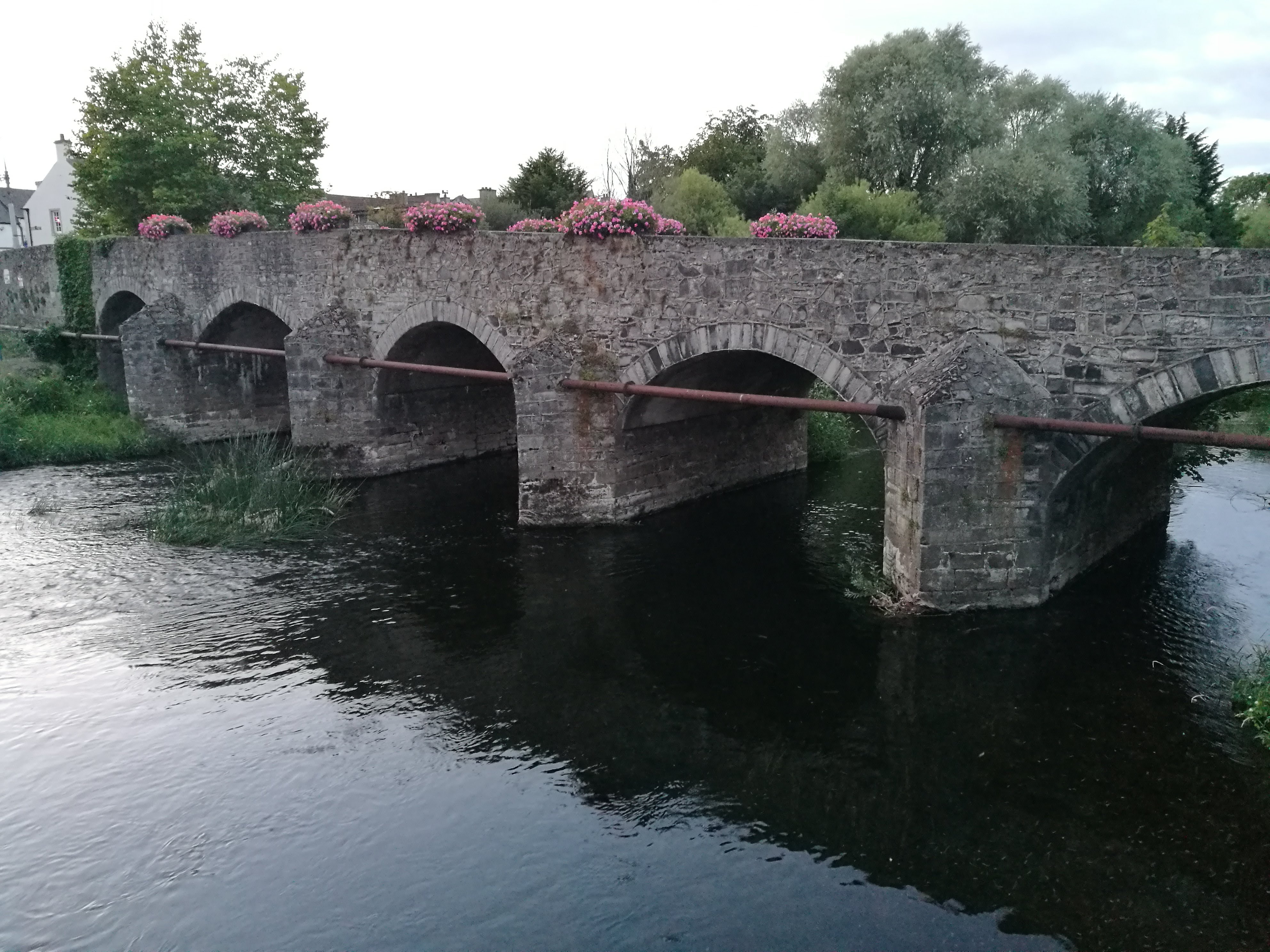 County Kildare, Celbridge Bridge. Wikidata has entry Q55050200 with data related to this item.